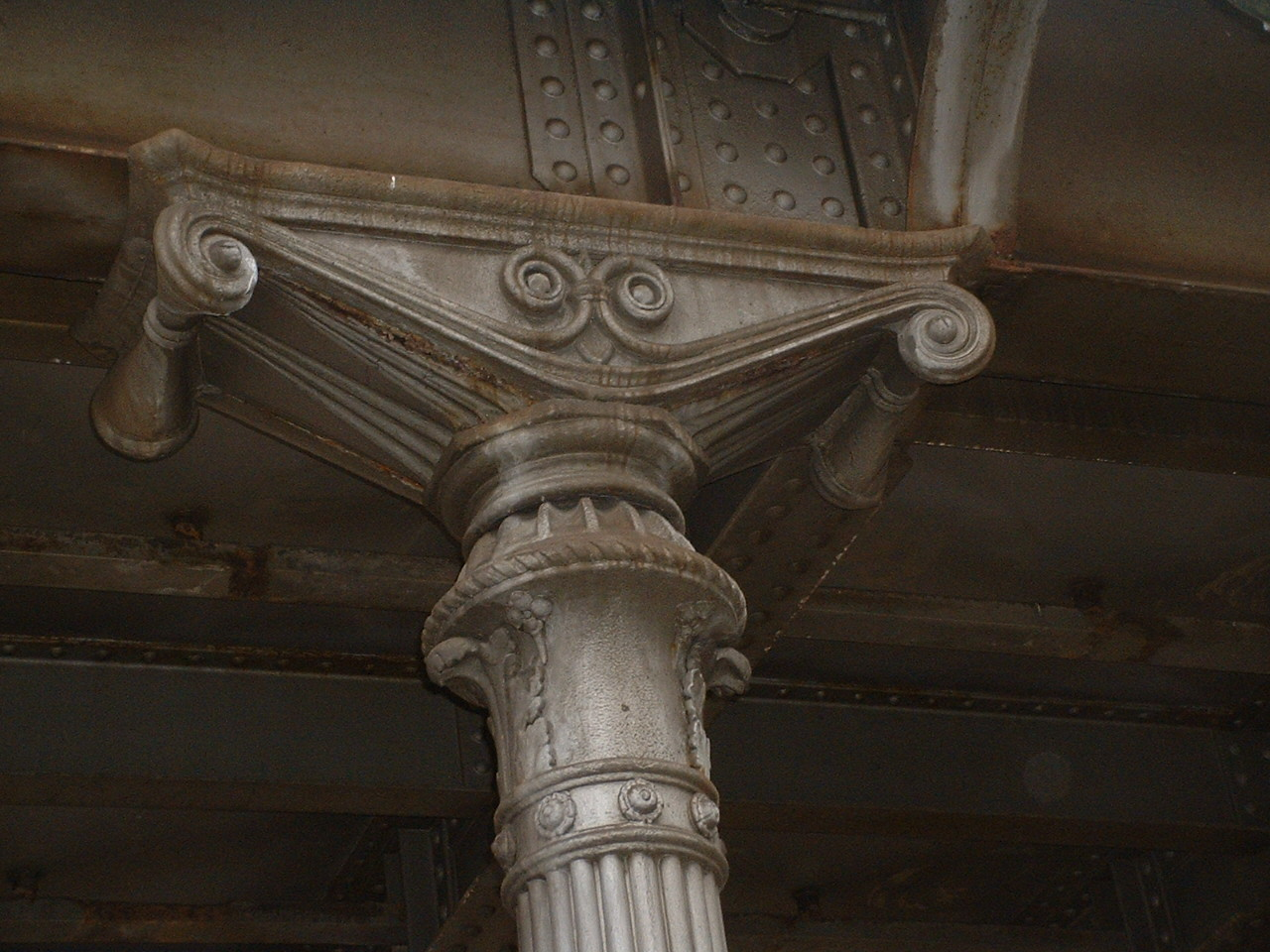 Hartungsche Saeule, Kapitell, S-Bahn bridge Berlin Baumschulenstraße